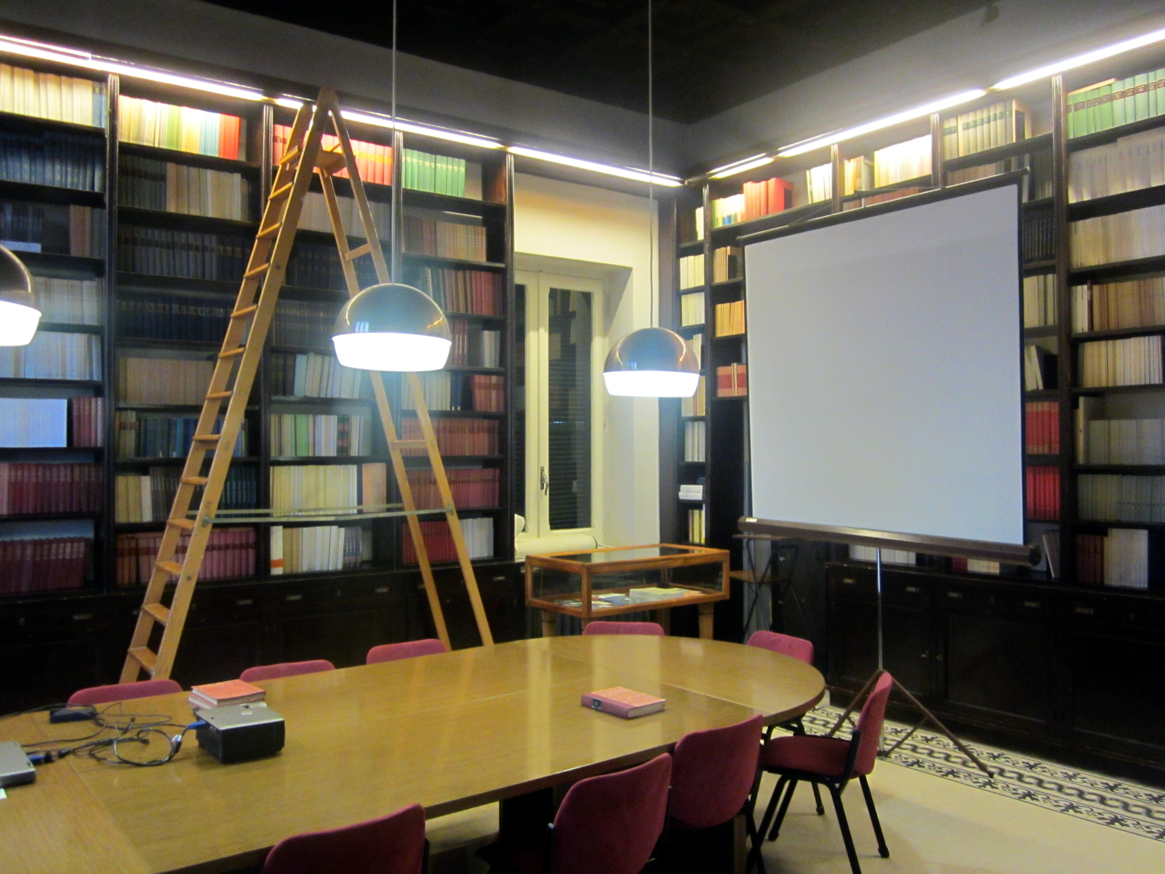 Villa Lante. Lecture room of the Institutum Romanum Finlandiae.